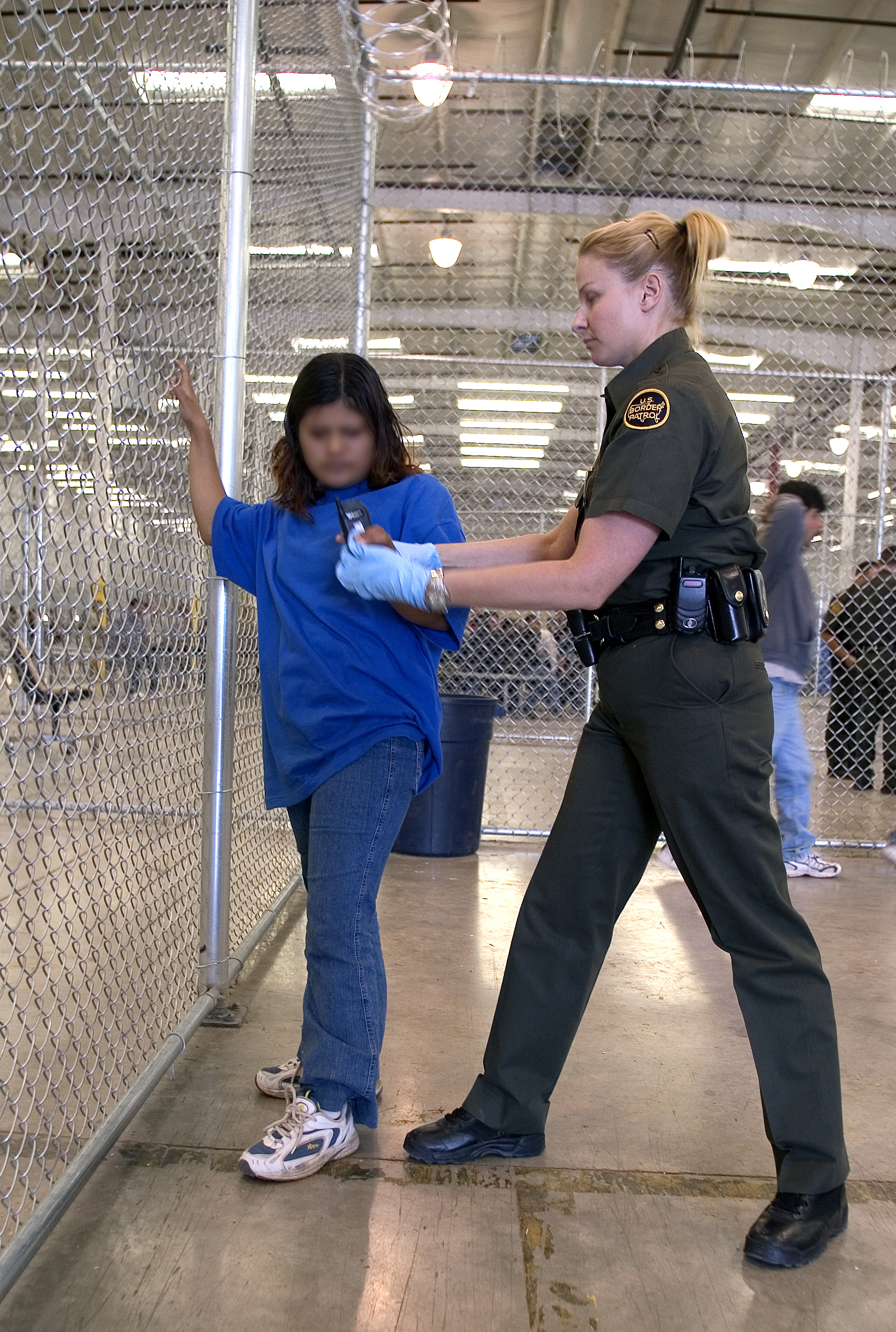 CBP Border Patrol agent conducts a pat down of a female Mexican being placed in a holding facility.